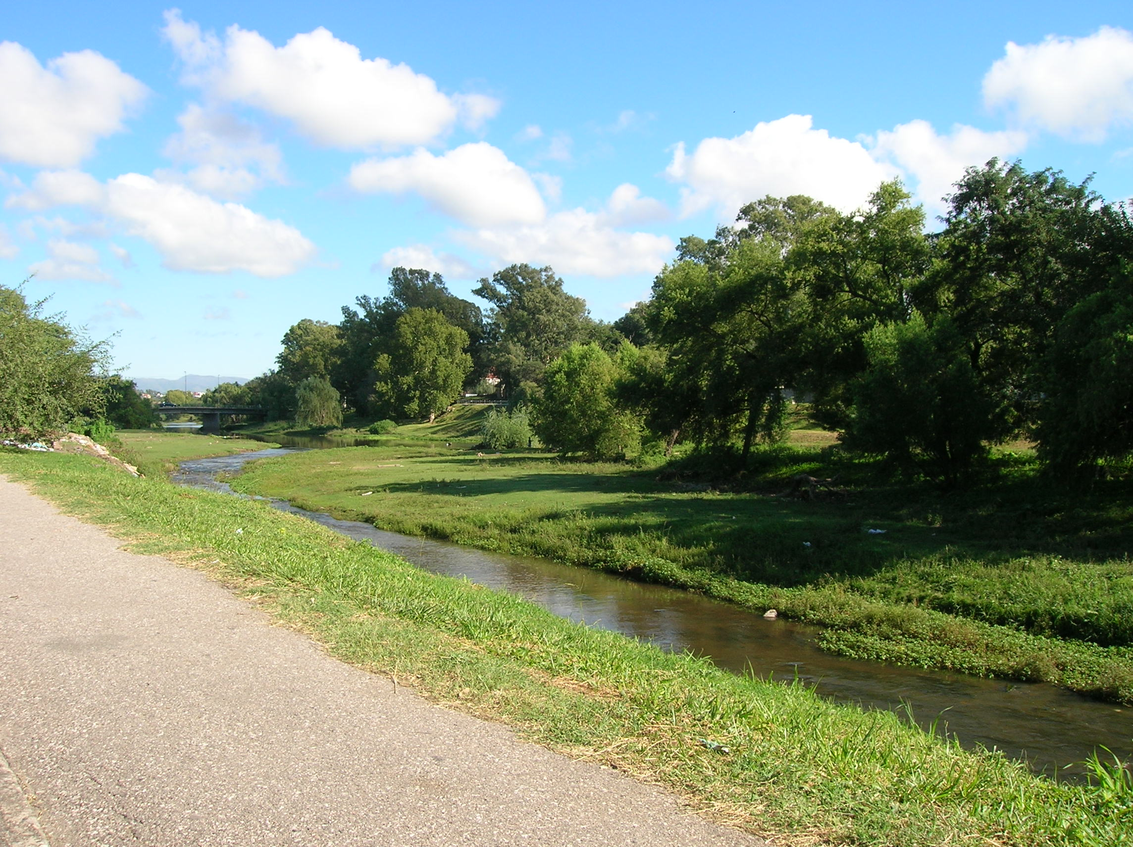 Suquía river near to Sagrada Familia bridge